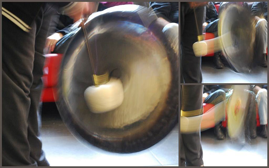 Playing a Hand Held Gong